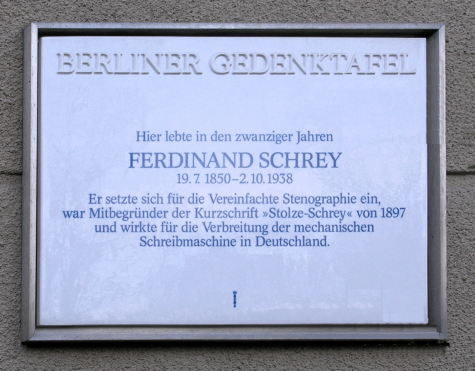 Berlin memorial plaque, Ferdinand Schrey, Ehrenbergstraße 21, Berlin-Dahlem, Germany Koordinate:52°26′53″N 13°17′24″E / 52.44806°N 13.29°E